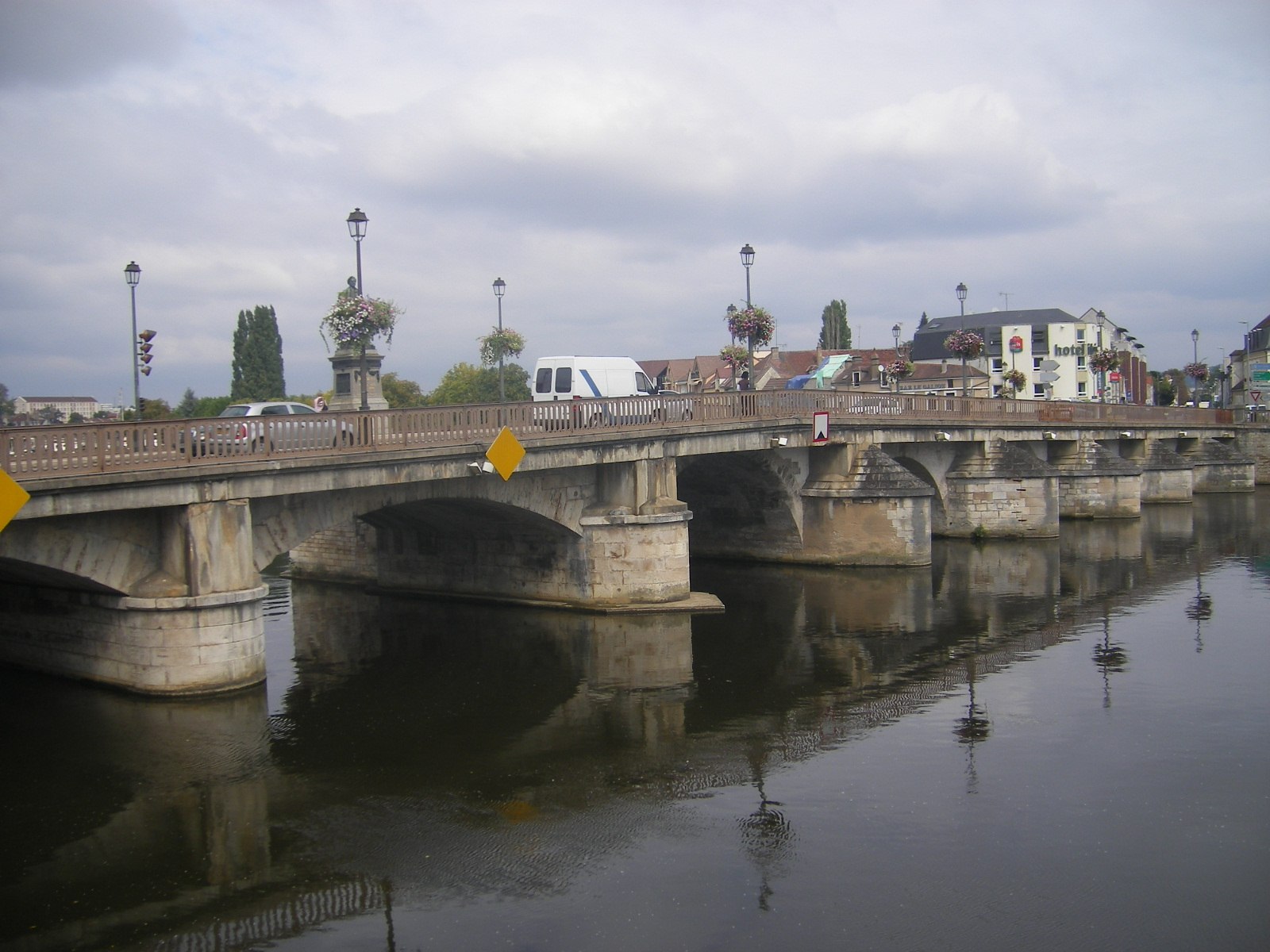 Auxerre - bridge over the Yonne